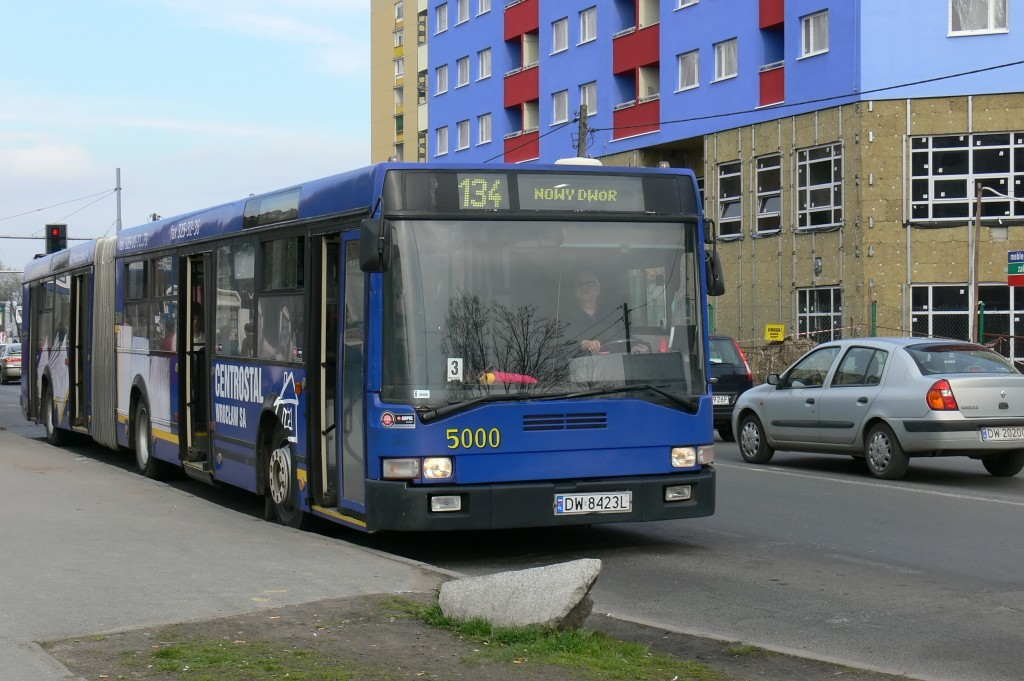 Ikarus 417.08 (#5000) bus in Wrocław, Poland. Built 1996. MPK Wrocław operator.